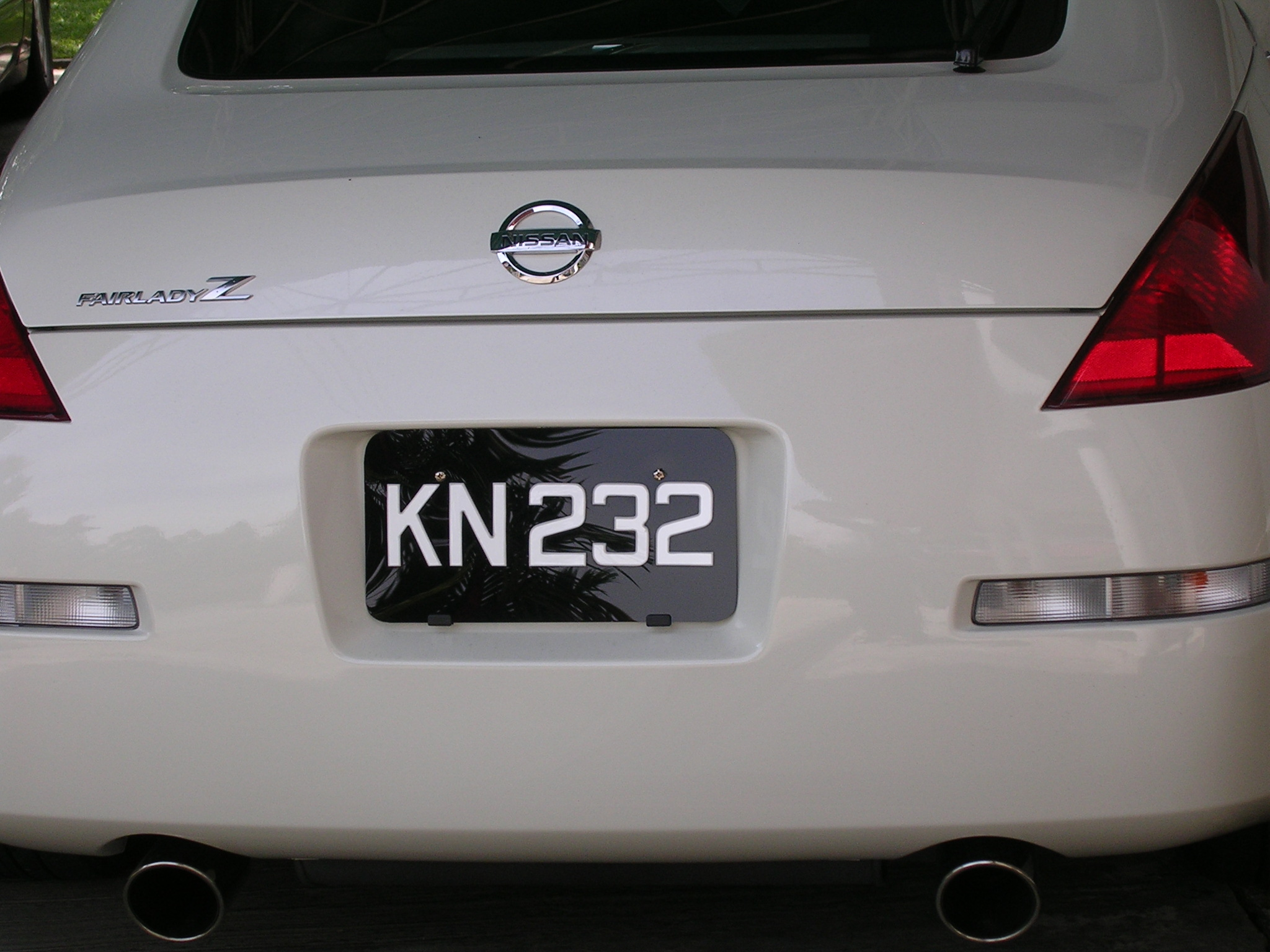 A photograph of the rear of a car in Brunei. Brunei Car License Plate. Own work.